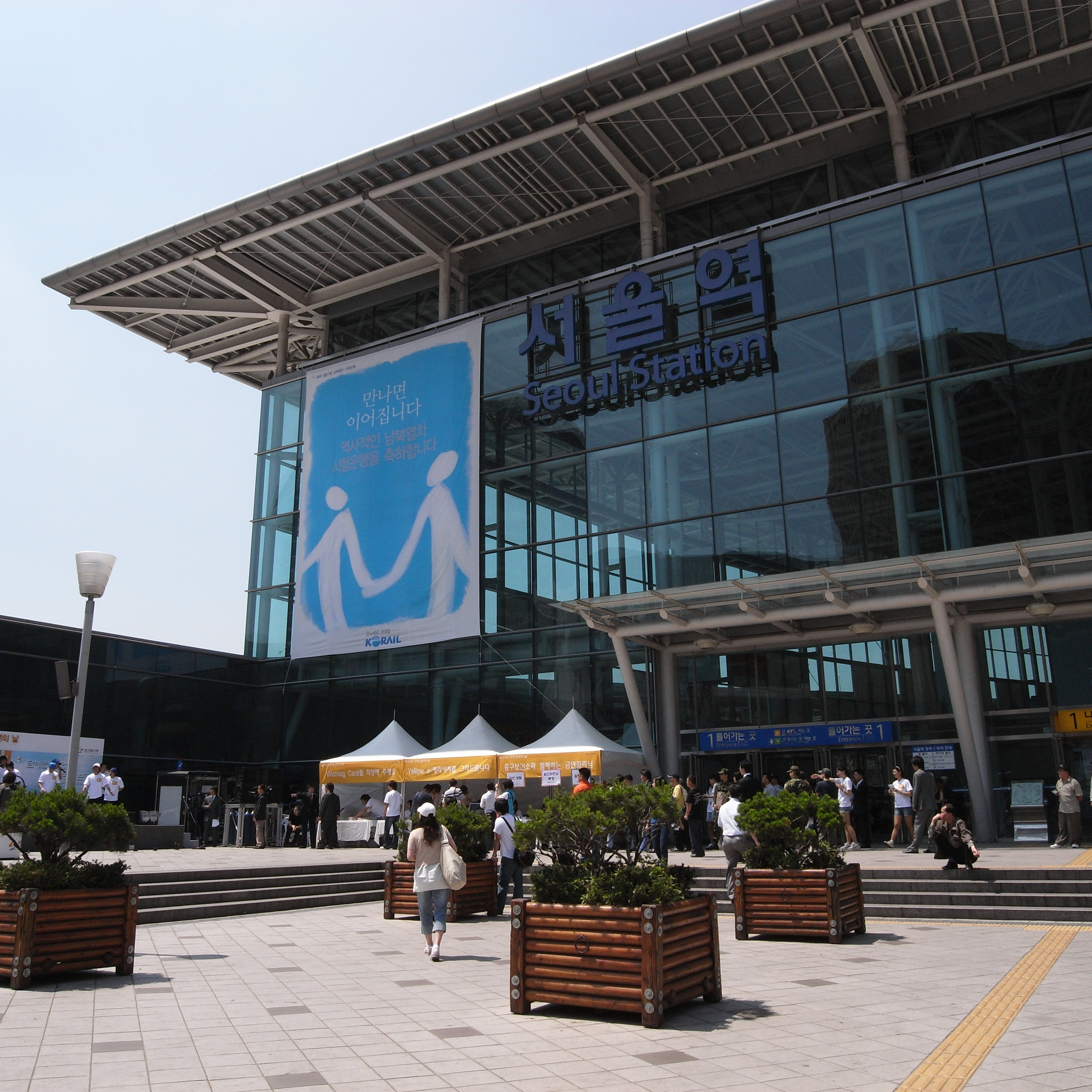 Seoul Station (en ia io ja ko pl zh)